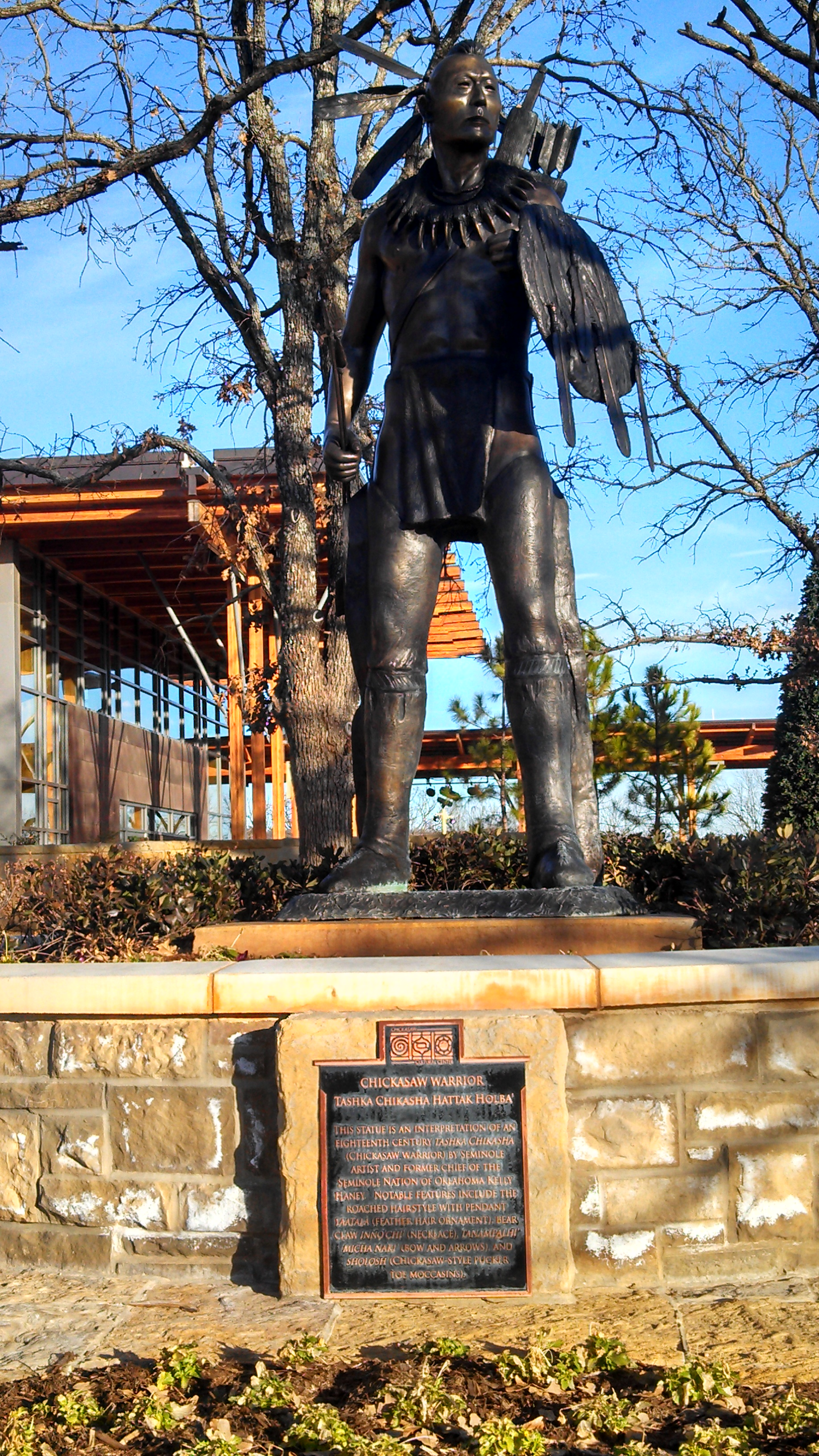 Statue of a stylized Chickasaw warrior by Enoch Kelly Haney at the Chickasaw Cultural Center near Sulphur, Oklahoma. December 2013.